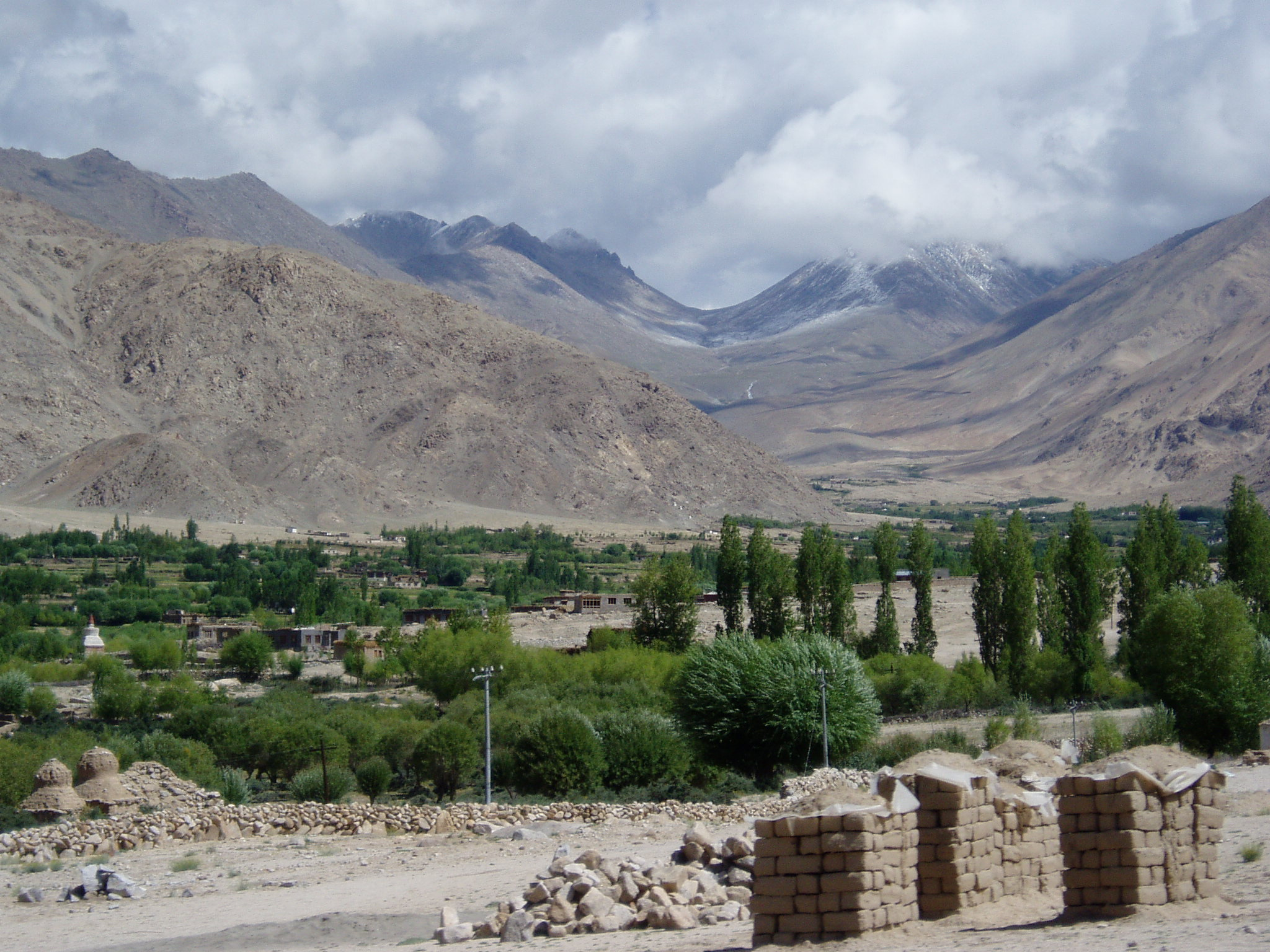 Glacially carved wind gap in Karu valley, Ladakh. Intense glacial erosion on the far side of the col has beheaded the glacial valley seen on this side of the ridgeline, leaving the outline of the glacial U-shaped valley on the horizon.